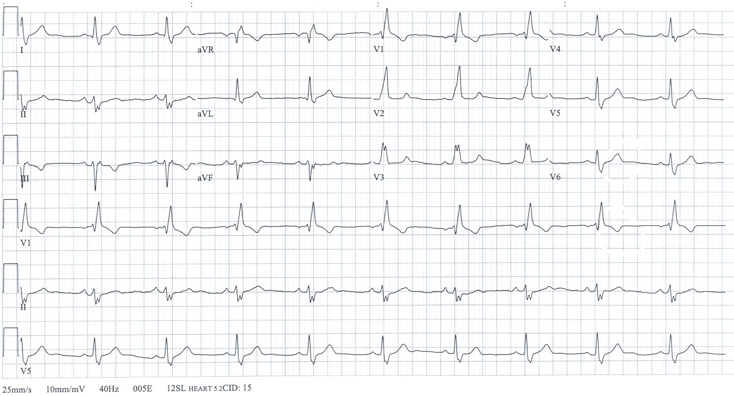 Electrocardiogram of a 59-year-old man showing a bifascicular block (consisting of a right bundle branch block and a left anterior fascicular block). Ventricular rate is 58 bpm, PR-interval 158 ms, QRS-duration 158 ms, QTc 438 ms, R-axis -45°.